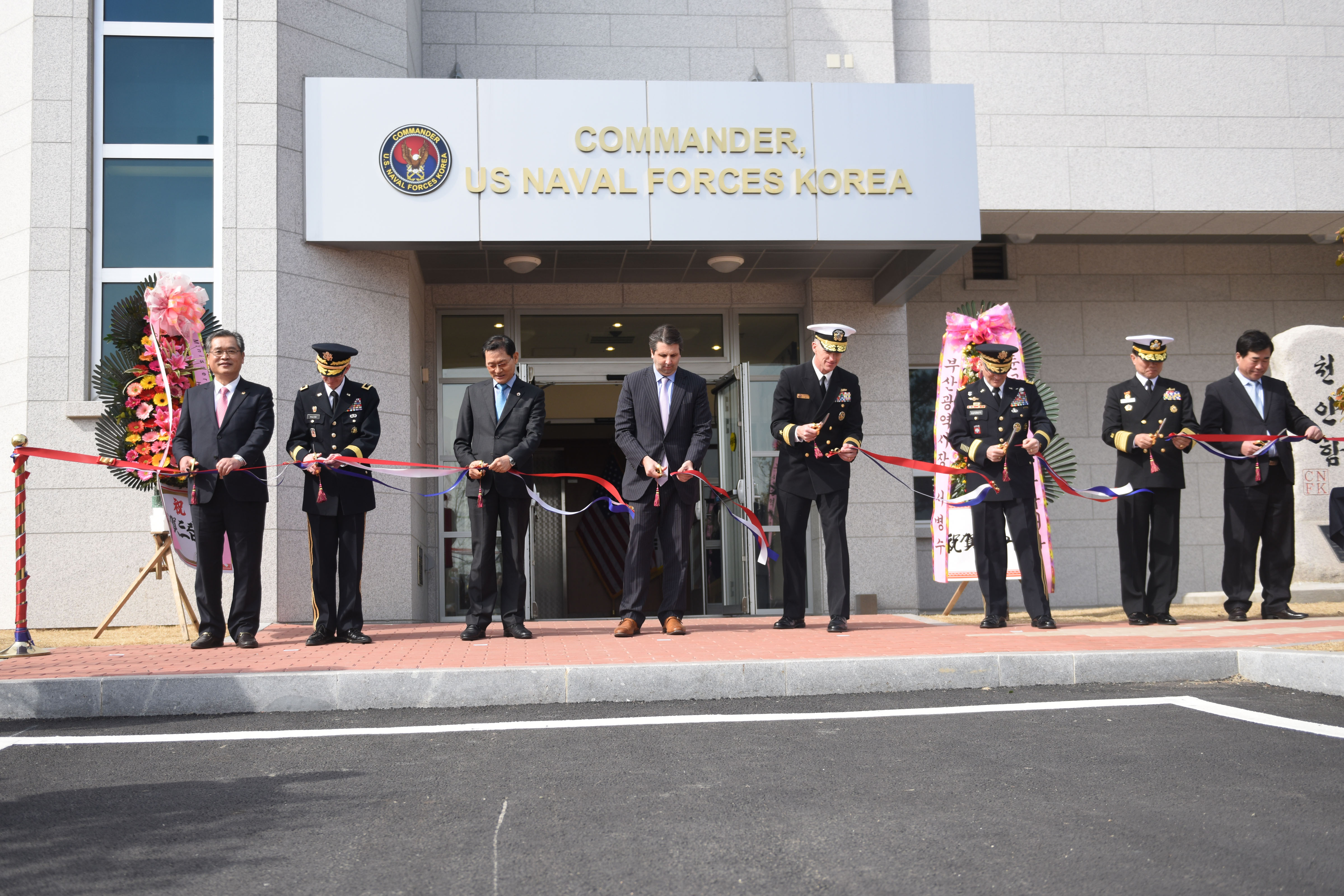 160219-N-WT427-291 BUSAN, Republic of Korea (Feb. 19 2016) - Rear. Adm. Bill Byrne, commander U.S. Naval Forces Korea (CNFK), Gen. Curtis Scaparrotti, commander, U.S. Forces Korea, VAdm. Ki-sik Lee, commander Republic of Korea (ROK) Fleet, Maj. Gen. James Walton, director of transformation and re-stationing for U.S. Forces Korea, Hon. Mark Lippert, U.S. ambassador to the ROK, Jung Gyung-jin, mayor of Busan for administrative affairs and Lee Jong-cheol, Nam-gu district mayor cut the ribbon of CNFK's new head quarters building during a ribbon-cutting ceremony. This ceremony marks the opening of CNFK’s new headquarters building in Busan since their relocation from Seoul as part of the greater Yongsan Relocation Plan.